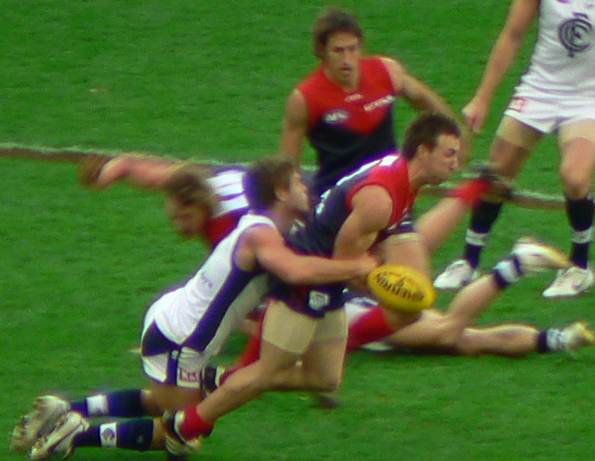 Australian rules football tackle